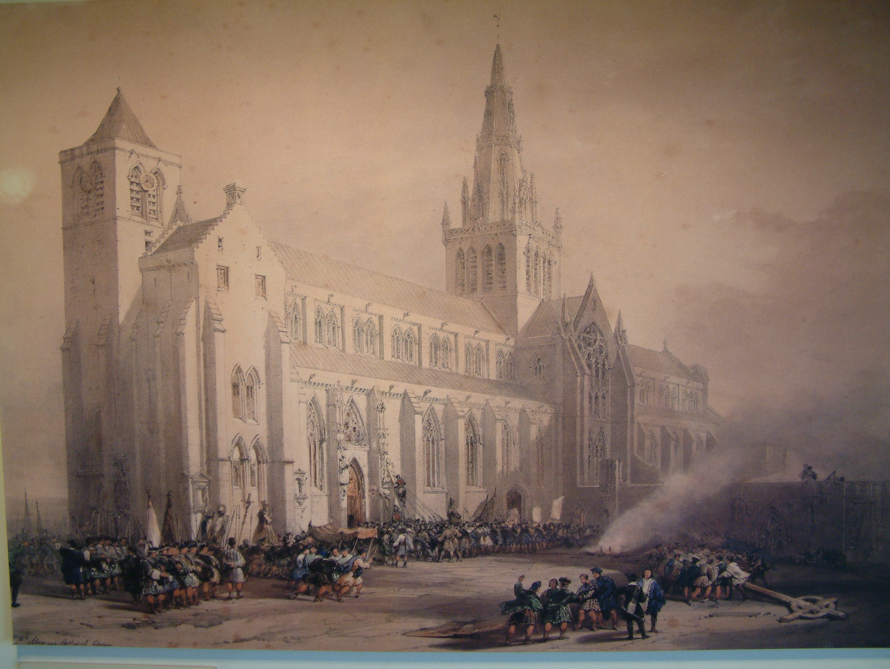 St. Mungo's Cathedral Glasgow lithograph with hand color